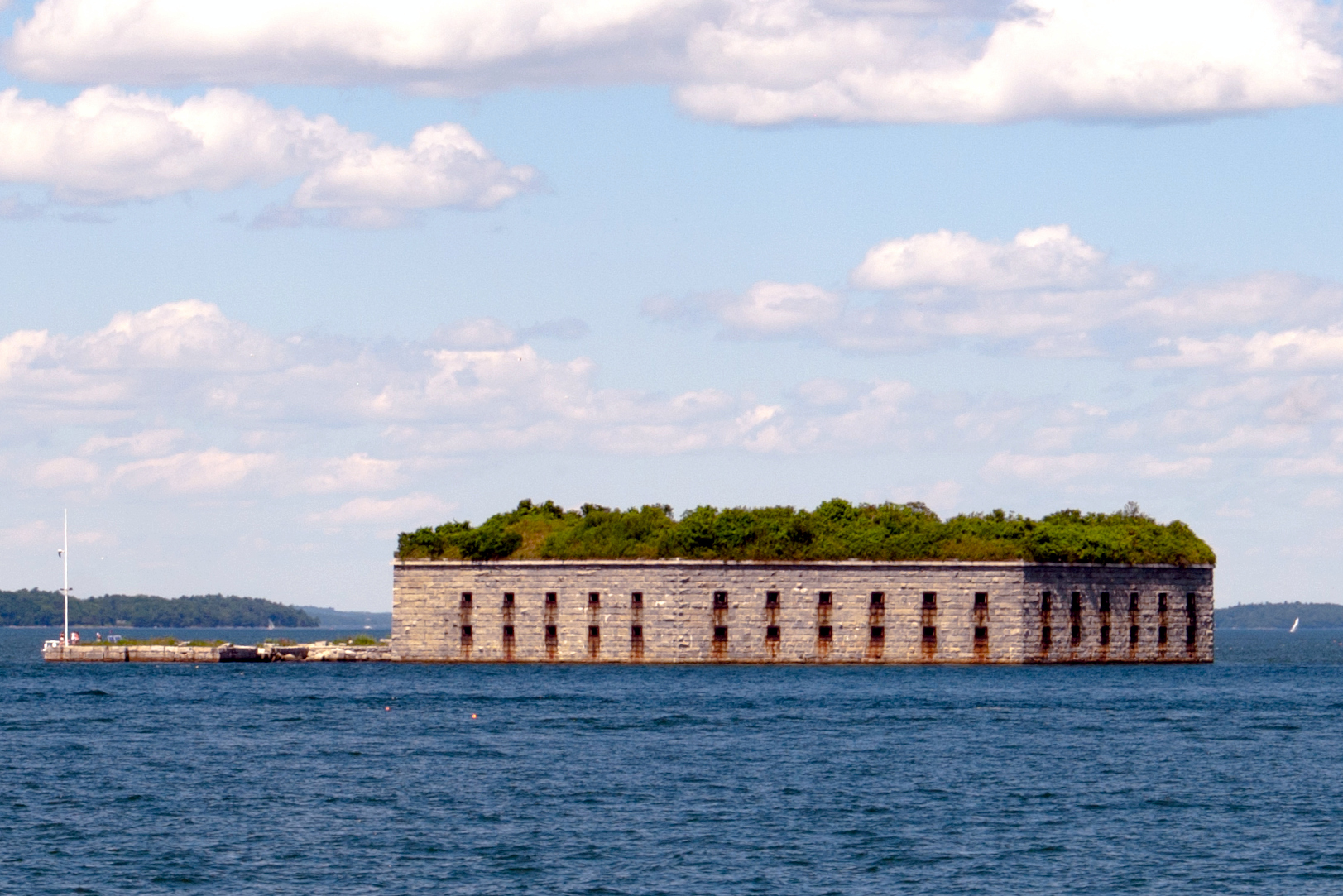 Fort Gorges in Casco Bay.